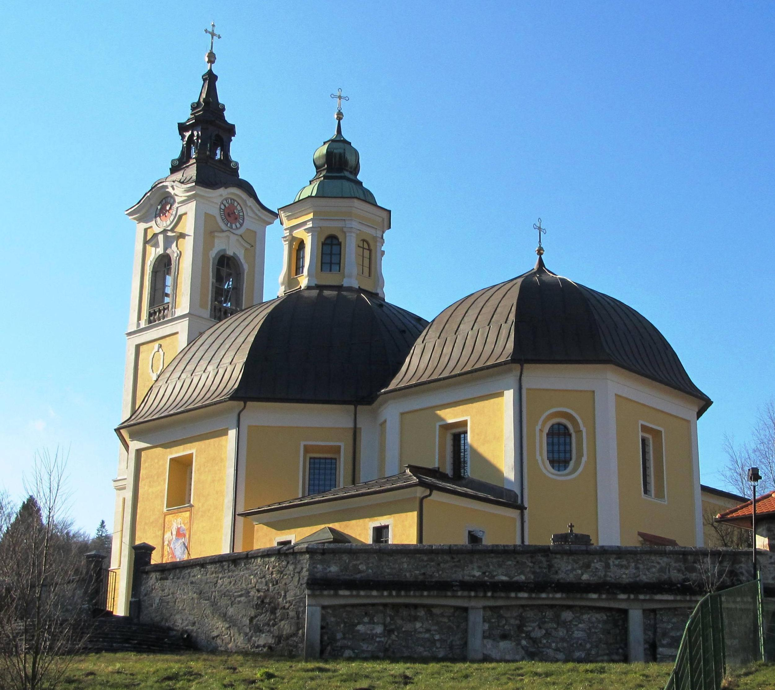 Church of the Assumption of Mary - Dobrova, Municipality of Dobrova–Polhov Gradec, Slovenia